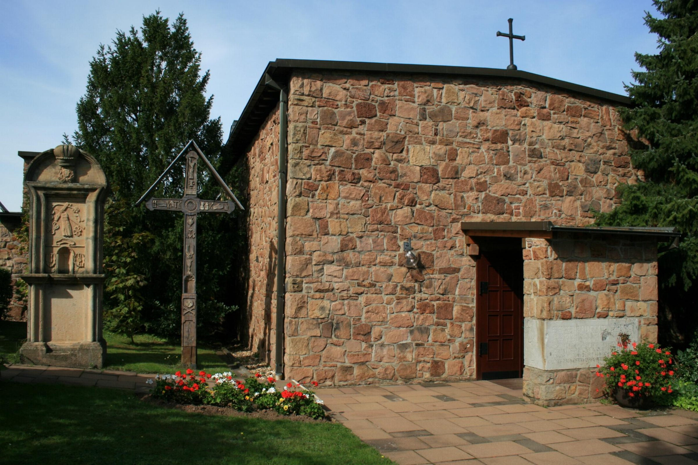 Cultural heritage monument No. 112 in Kreuzau